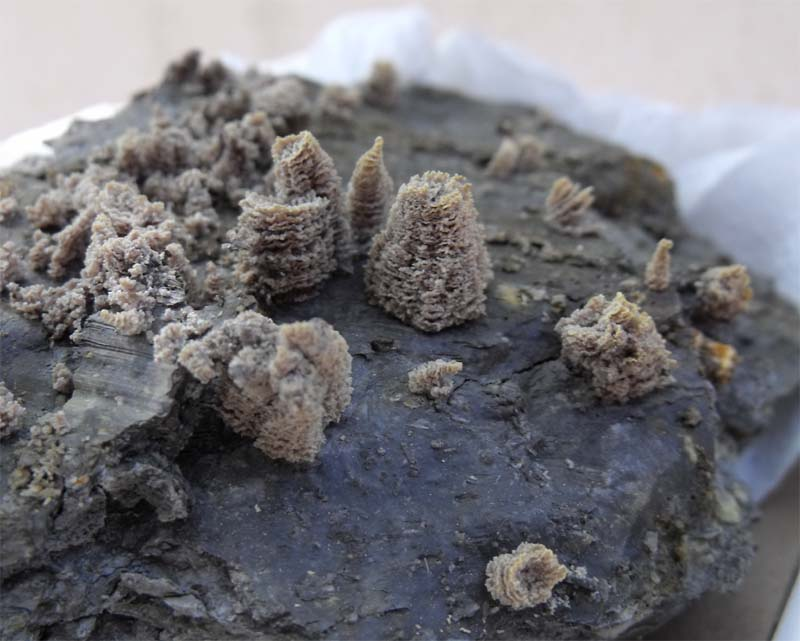 Fibroferrite crystal aggregates from Le Cetine mine (Siena province, Tuscany, Italy). Photo by Massimiliano Marcelli